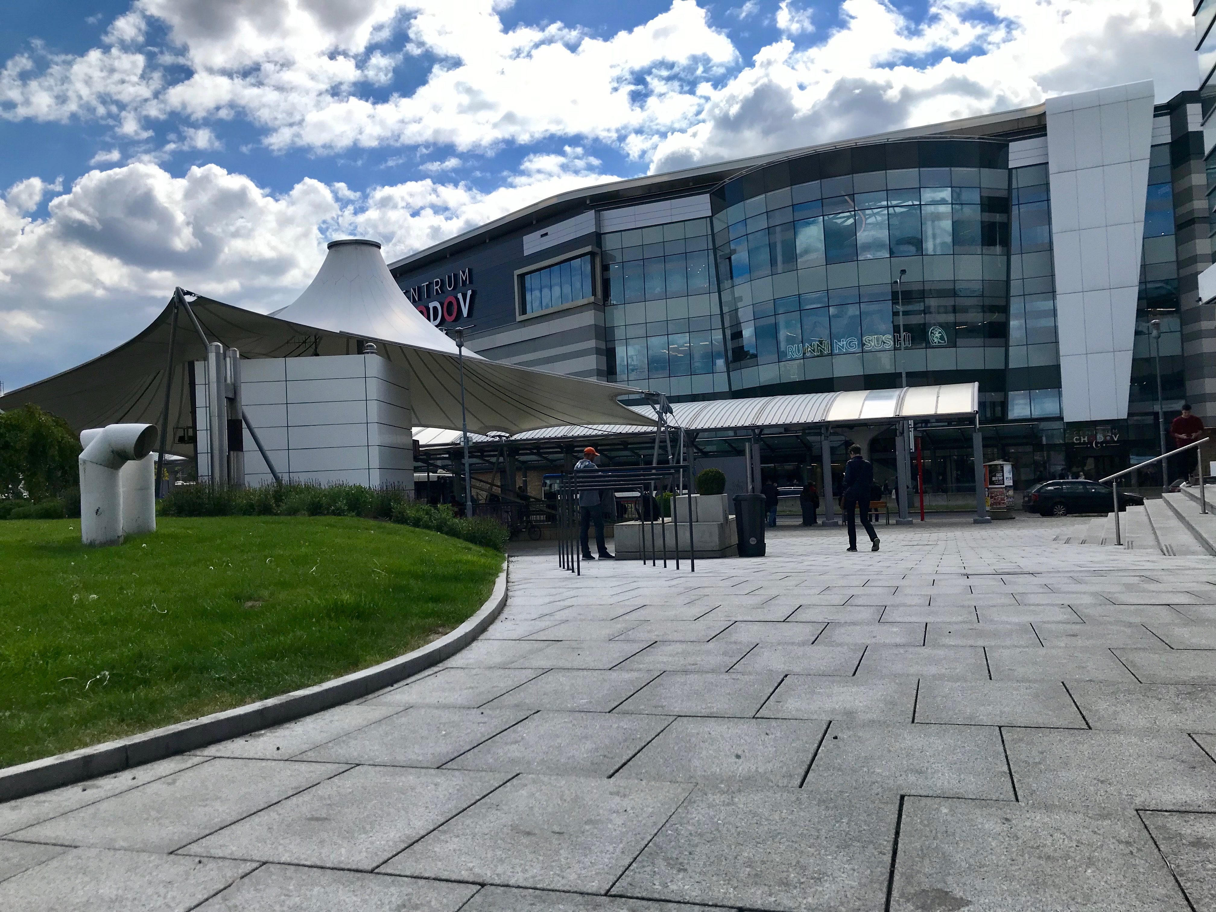 Metro station Chodov and one of the entrances to Centrum Chodov